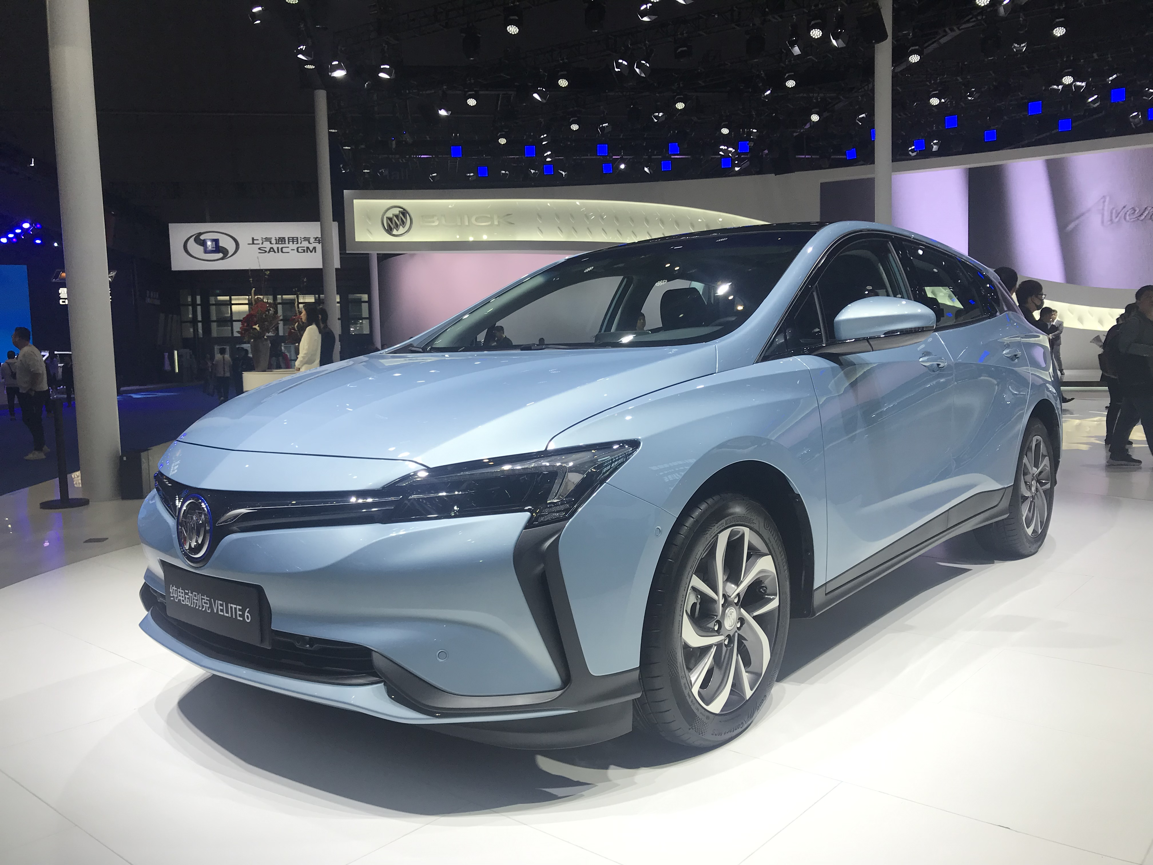 Buick Velite 6